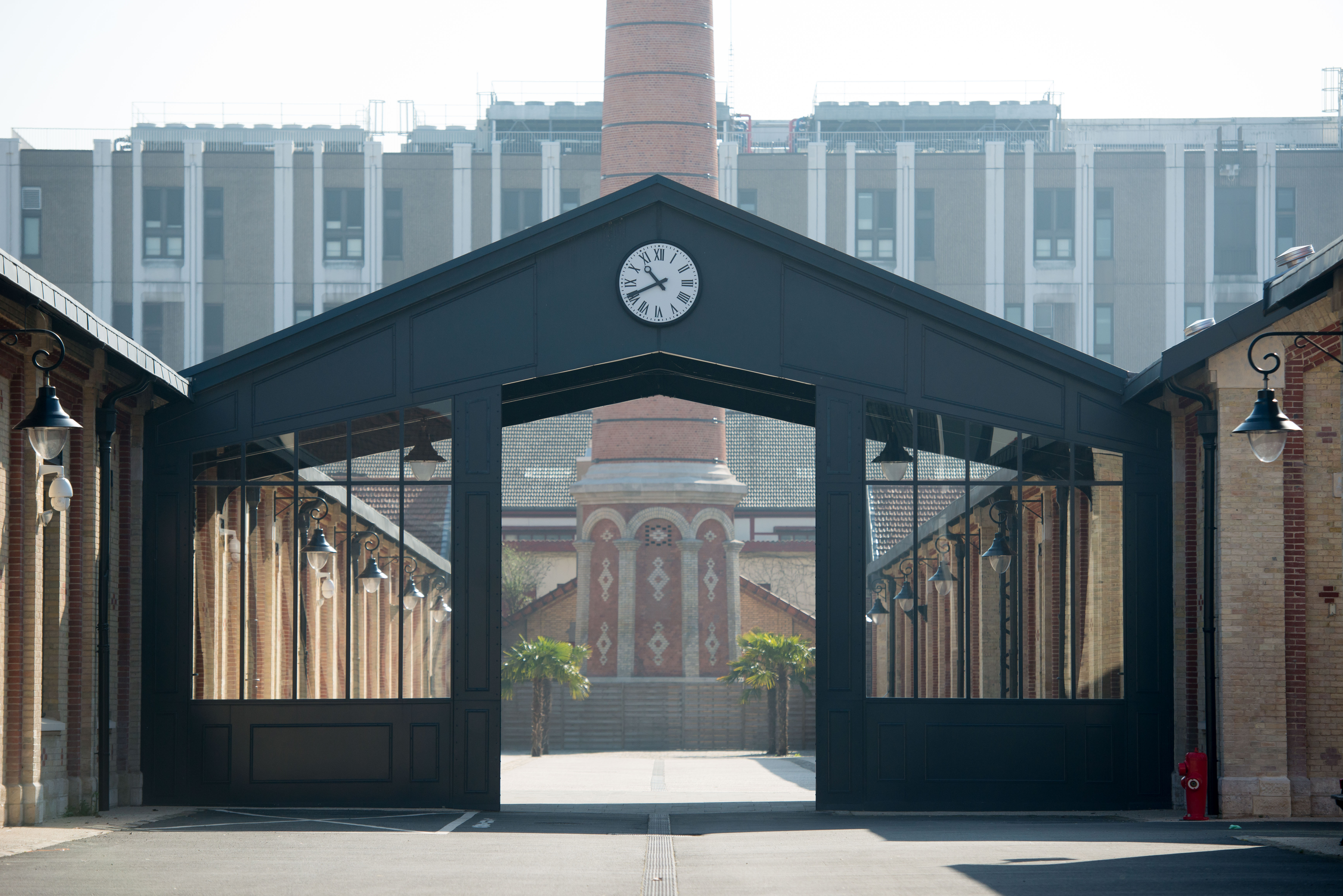 La manufacture des allumettes. Departement of conservators of the National Institute of Cultural Heritage, in Aubervilliers.